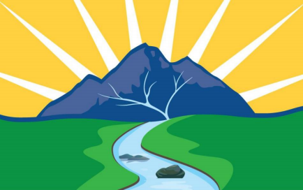 Flag of Meru County Kiswahili: Bendera ya Meru County